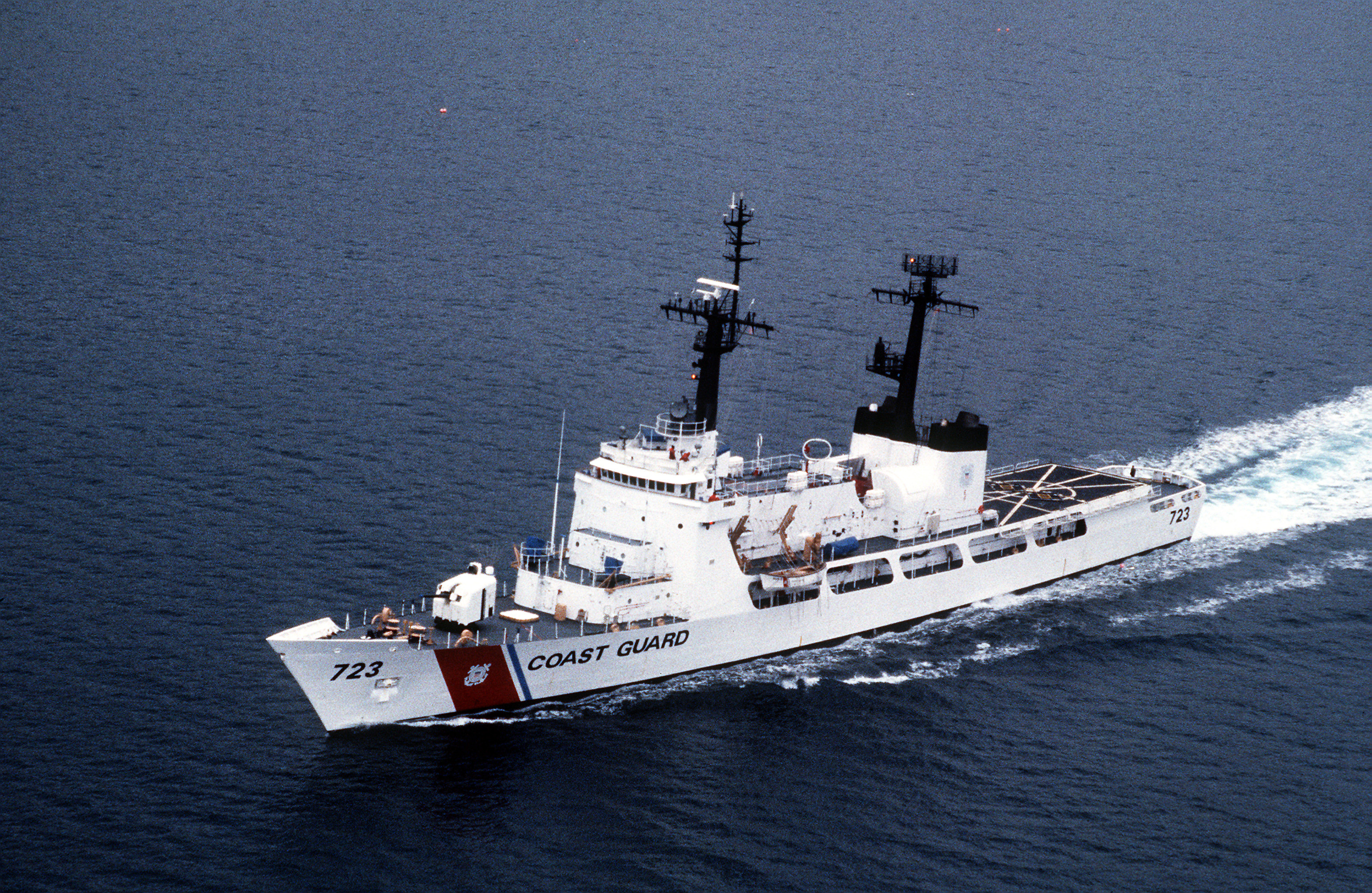 An aerial port view of the U.S. Coast Guard high endurance cutter RUSH (WHEC-723) underway during Exercise Brim Frost '85.Location: KODIAK, ALASKA (AK) UNITED STATES OF AMERICA (USA)